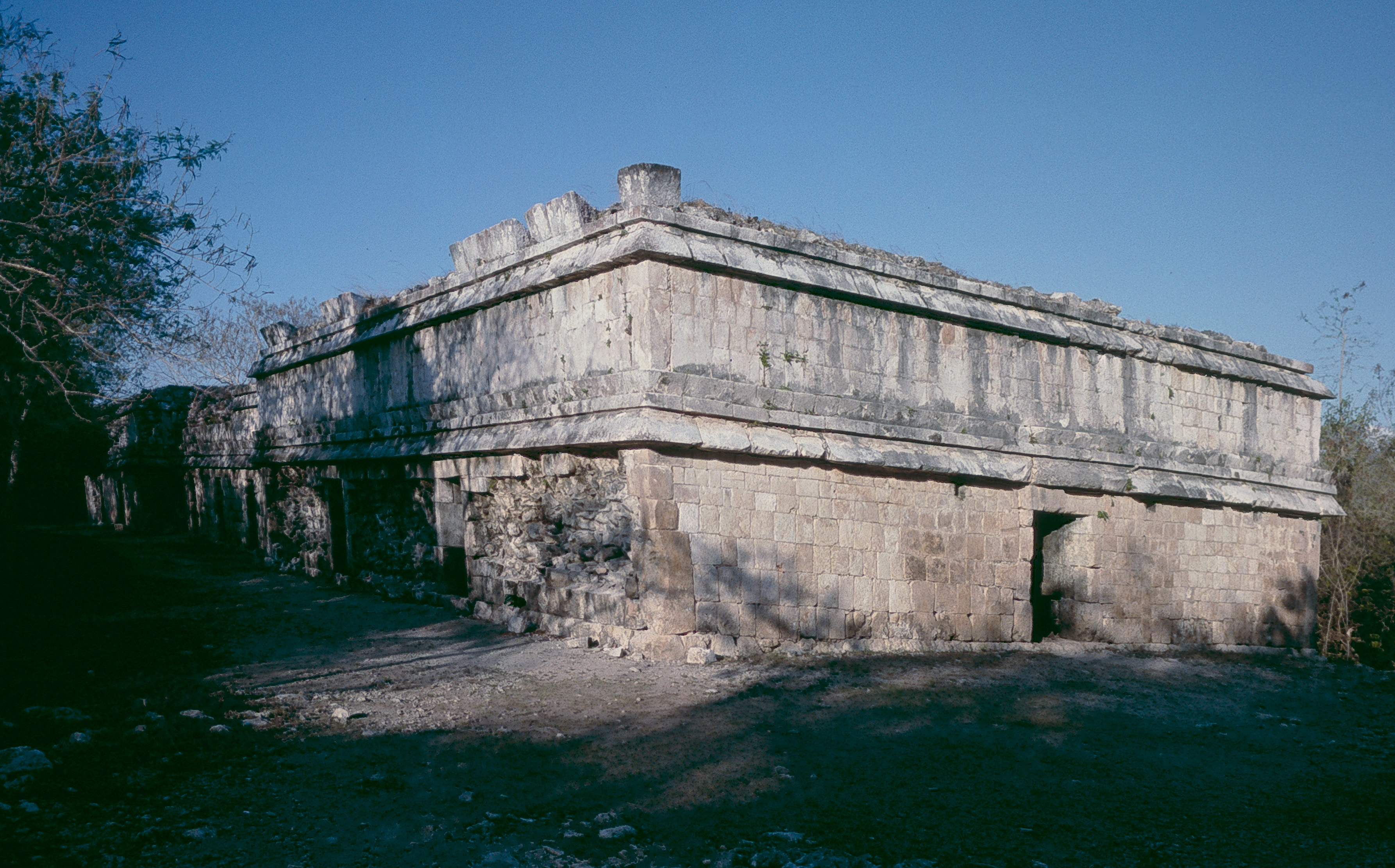 Chichen Itza, Yucatan, Mexico: Akab Dzib